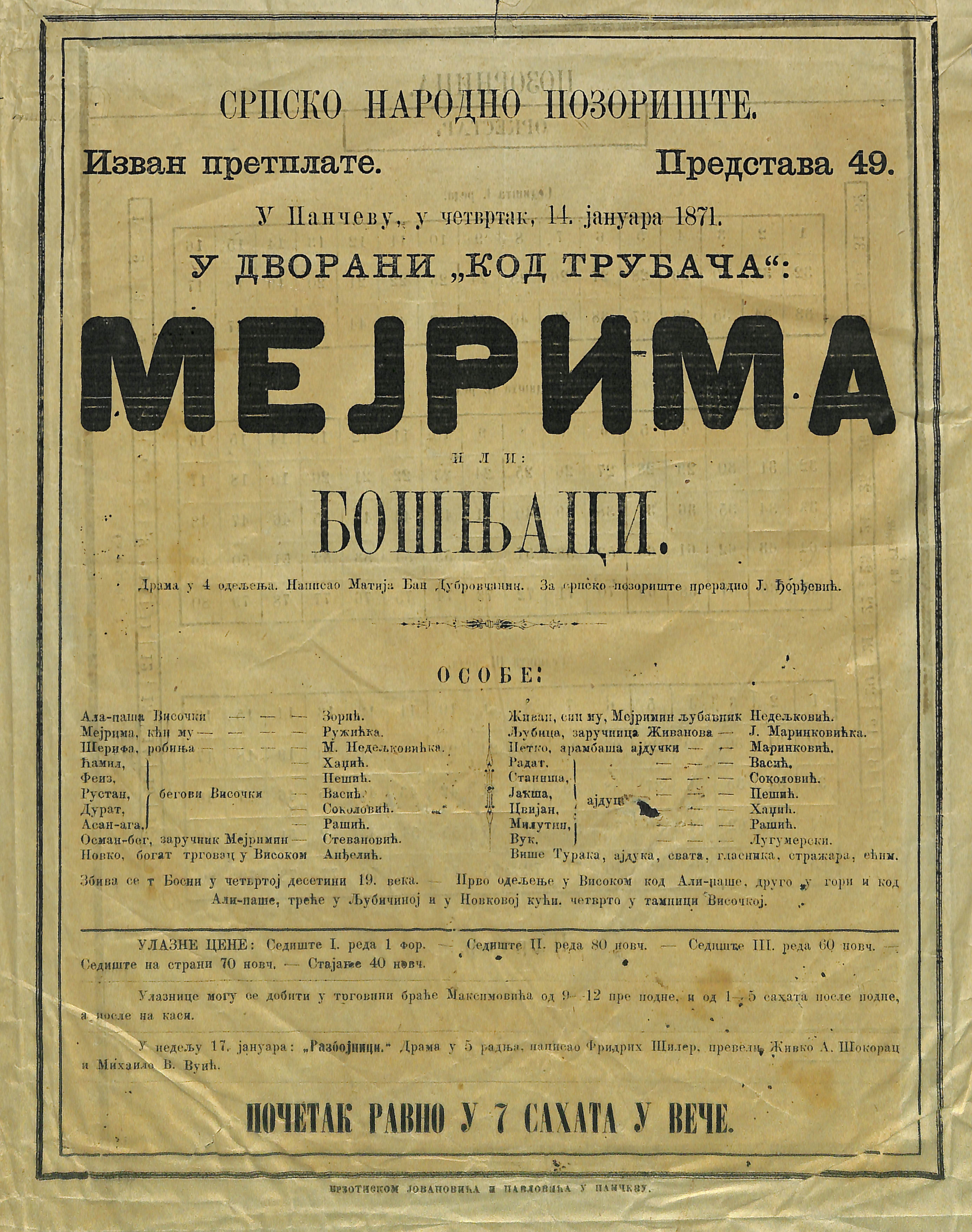 Performance in Pančevo in the hall Trubač